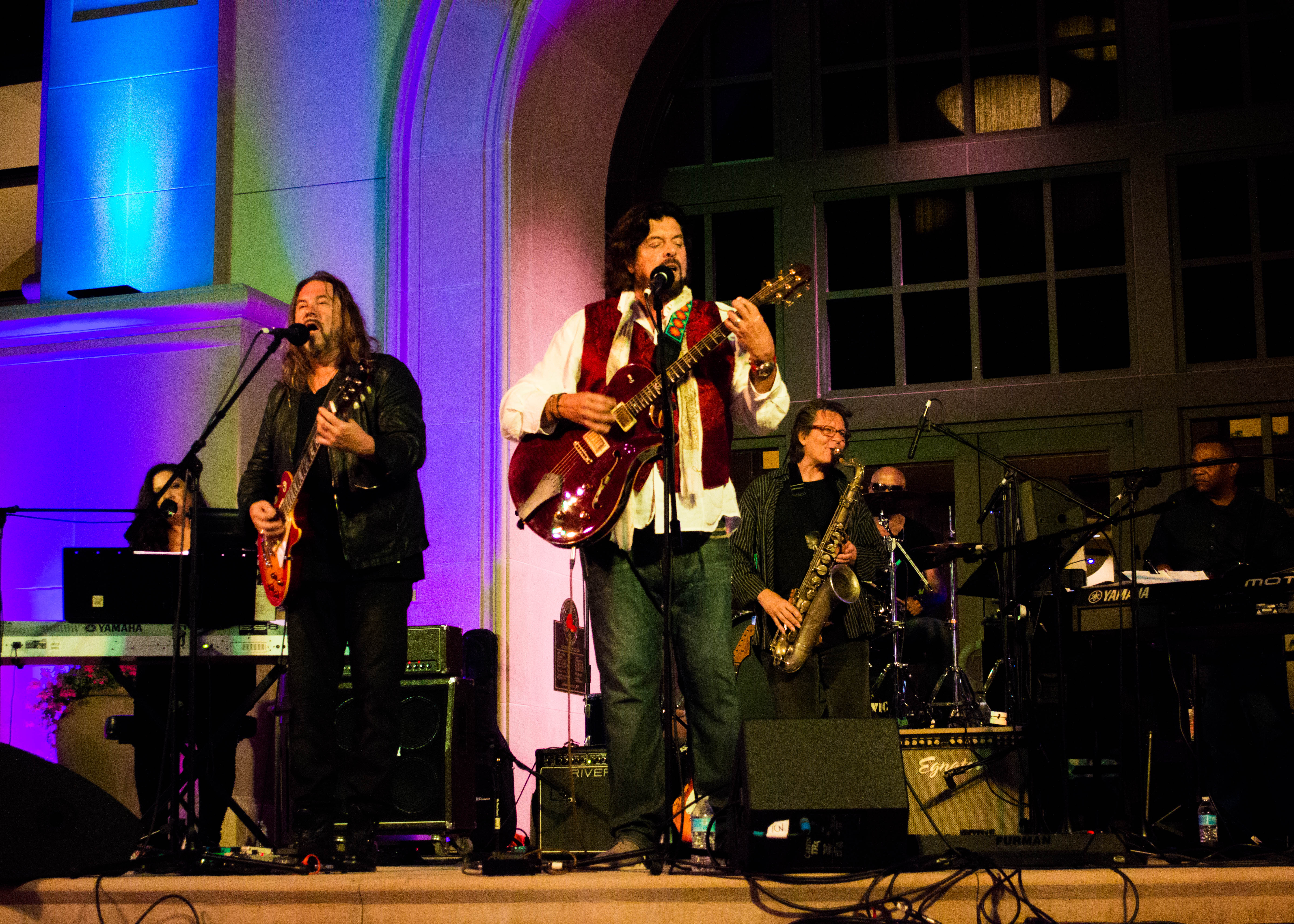 Hang Dynasty, featuring (l-r) Diane Feinberg-Lewis, Kenny Lee Lewis (Steve Miller Band), special guest Alan Parsons, Scott Page (Pink Floyd, Toto, Supertramp), Kenny Aronoff (John Mellencamp, Cinderella, Chickenfoot), and Reggie McBride (Stevie Wonder, Glenn Frey, Elton John), headlining the 2014 Temecula Valley International Film and Music Festival.